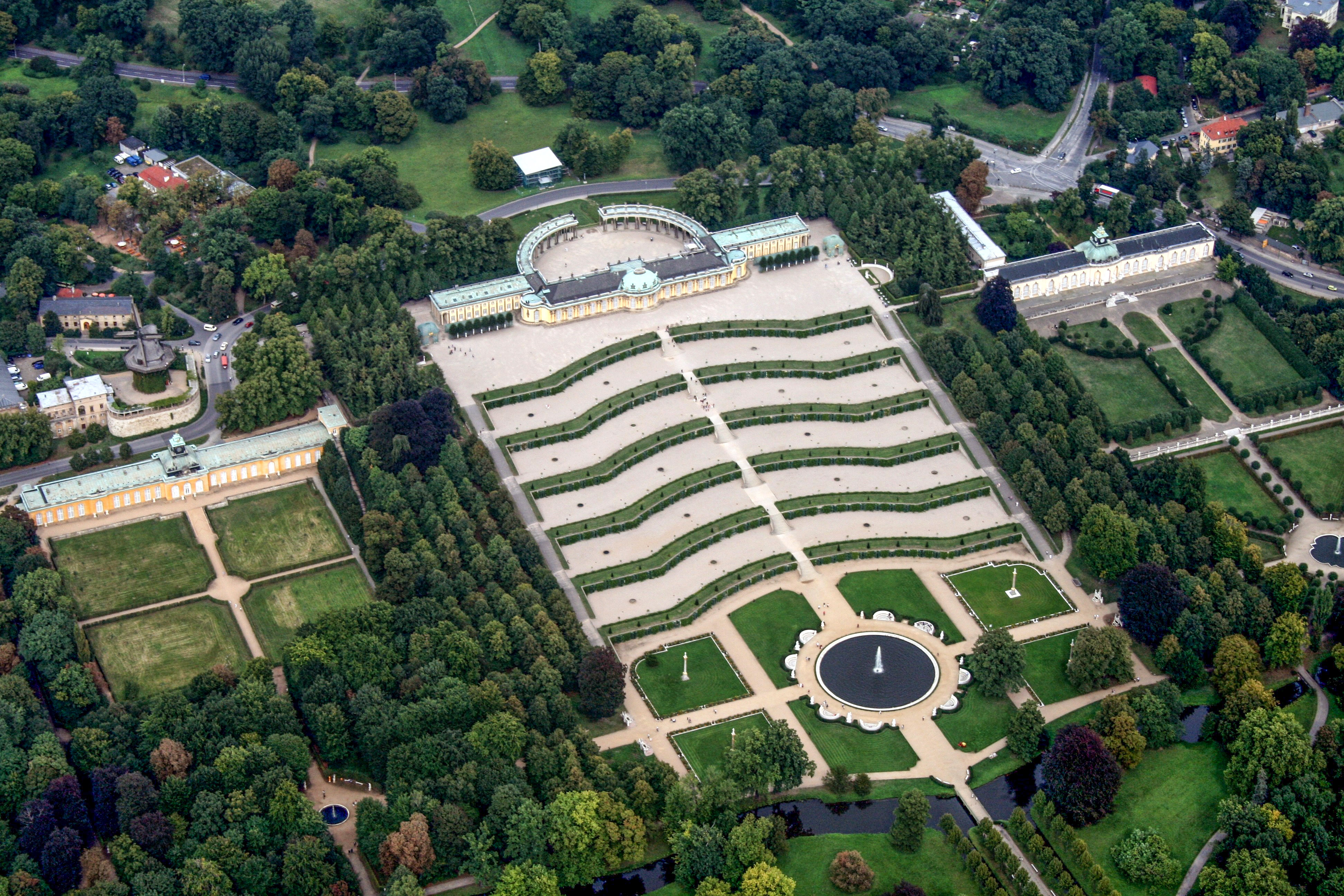 Sanssouci viewed from the air